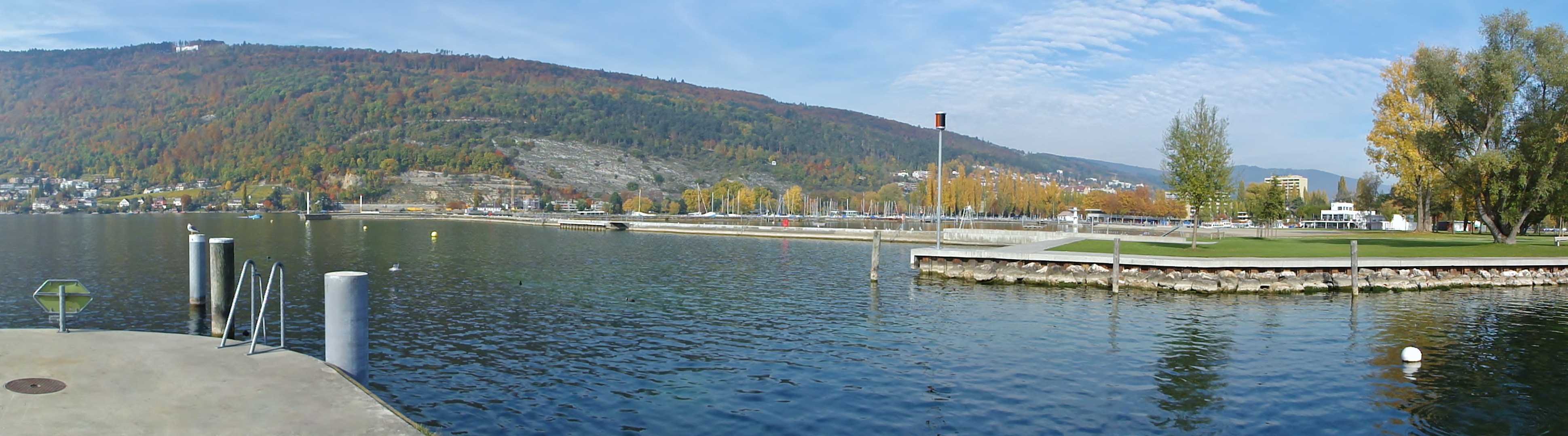 Lake Biel, view from Nidau